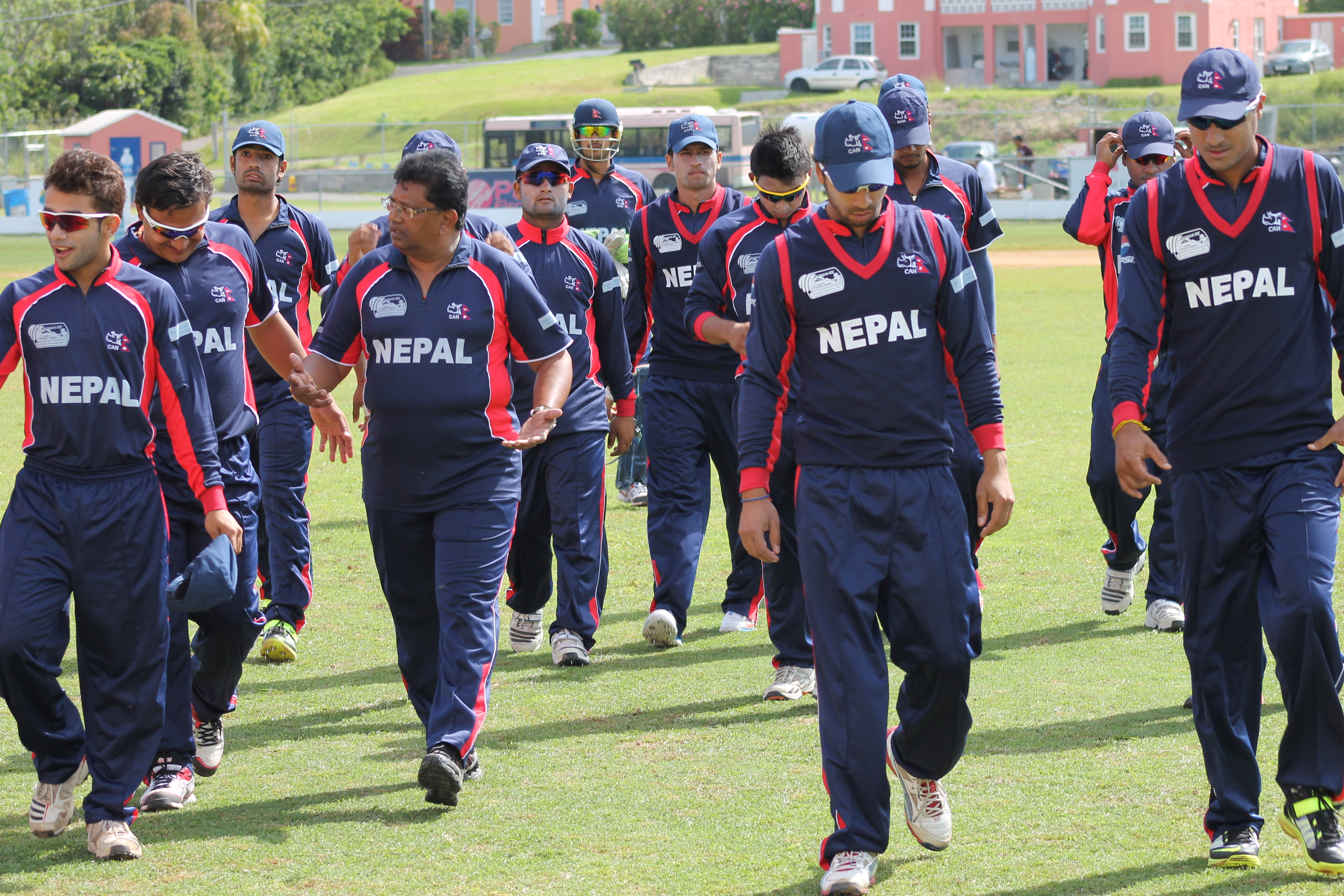 Nepali National Cricket team in Bermuda By:Roshan Bahadur Singh